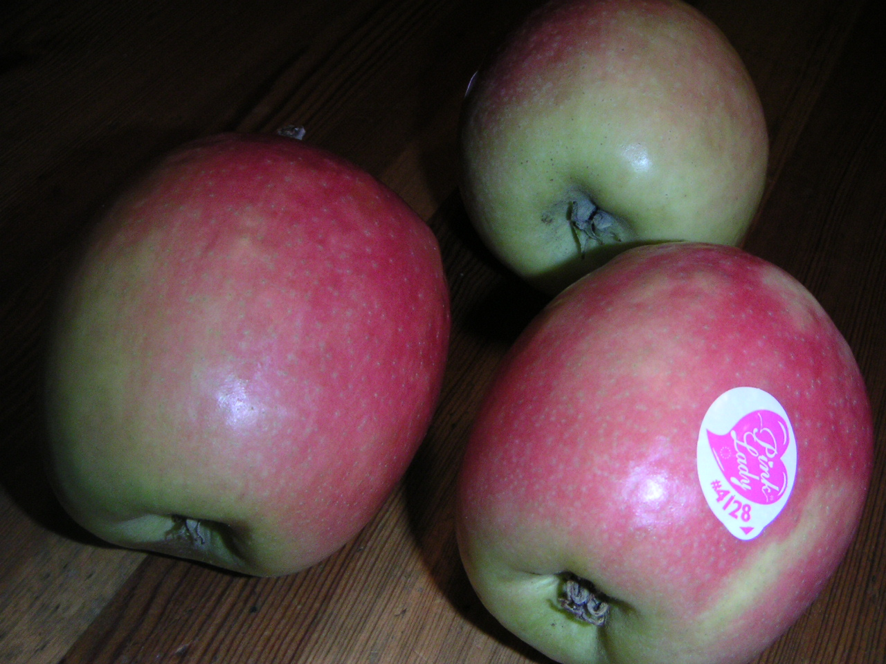 Three Pink Lady apples.